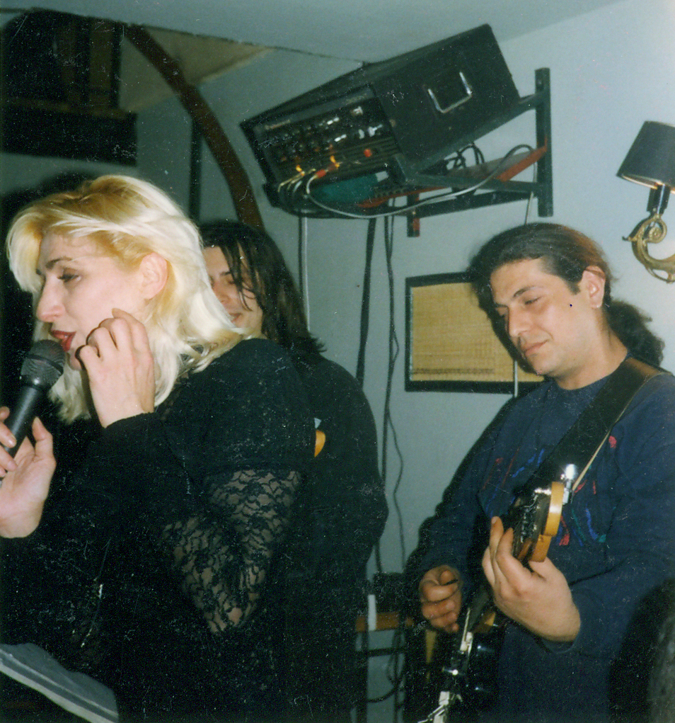 Serbian rock singer Snežana Mišković - Viktorija